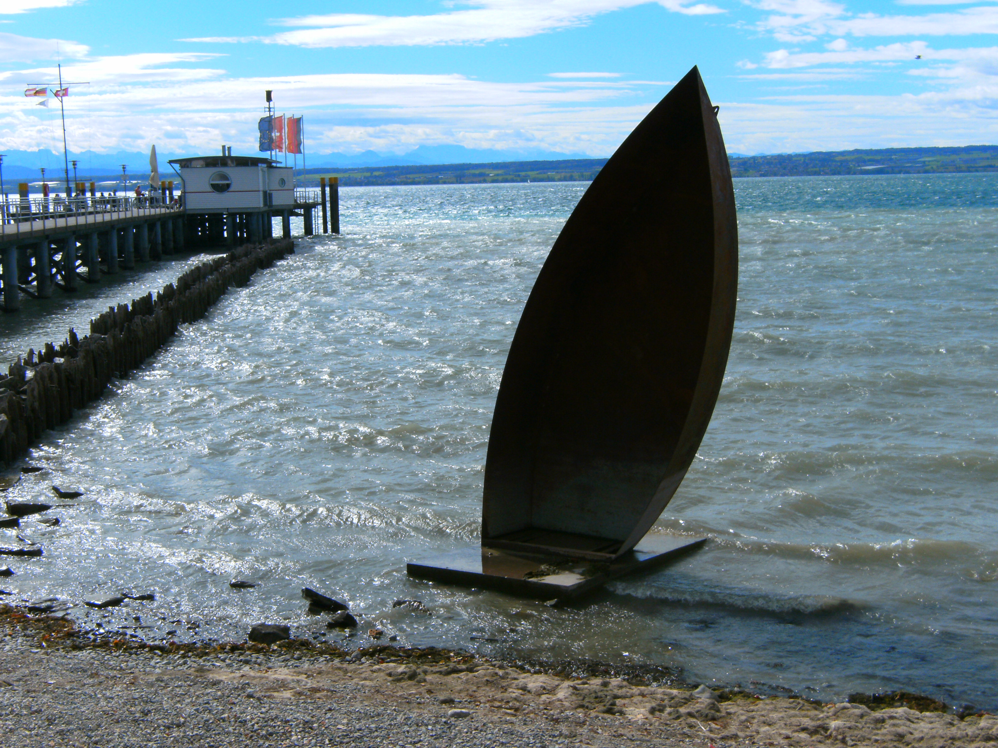 Landing stage Hagnau am Bodensee (Lake Constance). Sculpture by Jürgen Knubben (* 1955) to remember frozen Lake Constance in 1963.